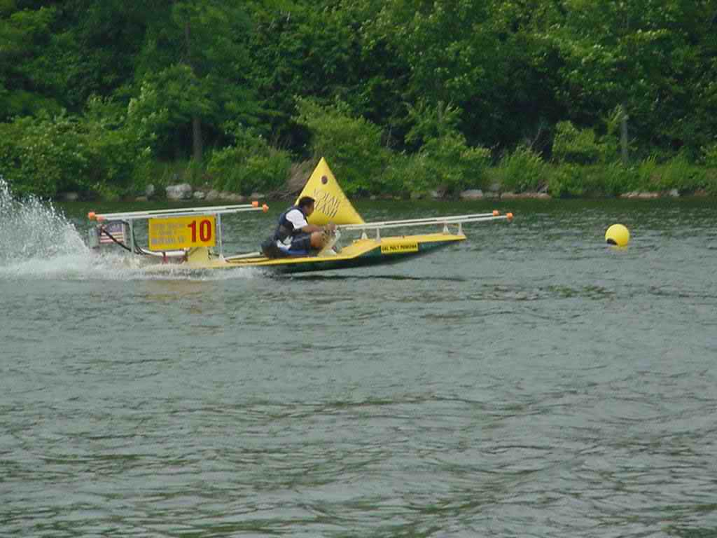 Cal Poly Pomona Solar Powered Race Boat for 2002 Solar Splash Competition in buffalo New York. Picture taken by Eduardo Hernandez, myself. Lebite 16:32, 6 September 2006 (UTC)